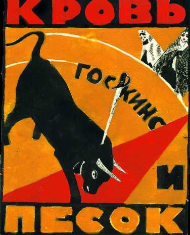 Poster for Russian release of Blood and Sand (1922), a silent film directed by Fred Niblo and starring Rudolph Valentino. Artwork by Soviet illustrator Elizaveta Dorfman.